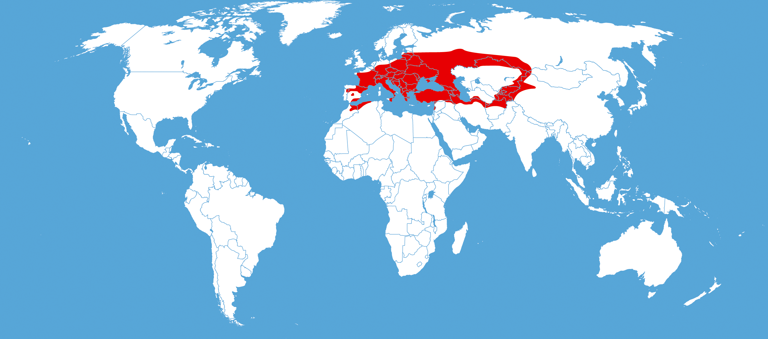 Distribution map of the Willowherb Hawkmoth